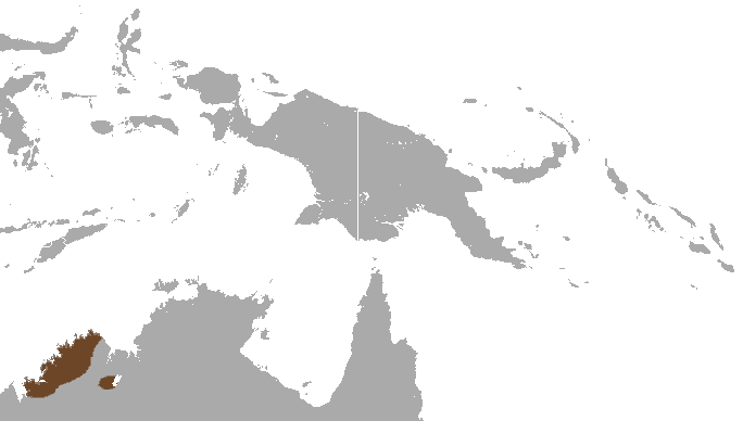 Scaly-tailed Possum (Wyulda squamicaudata) range